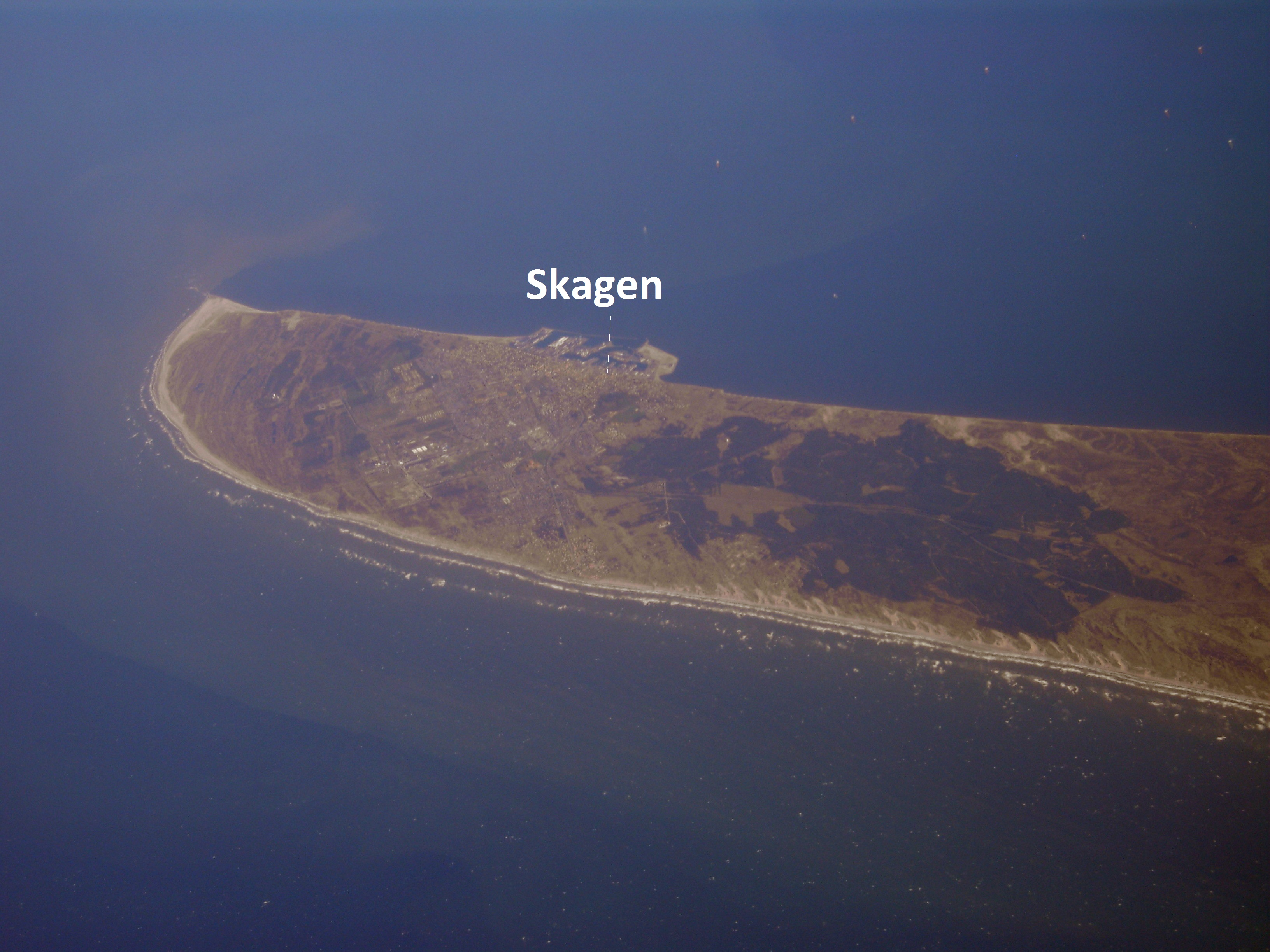 Skagen seen from an airplane